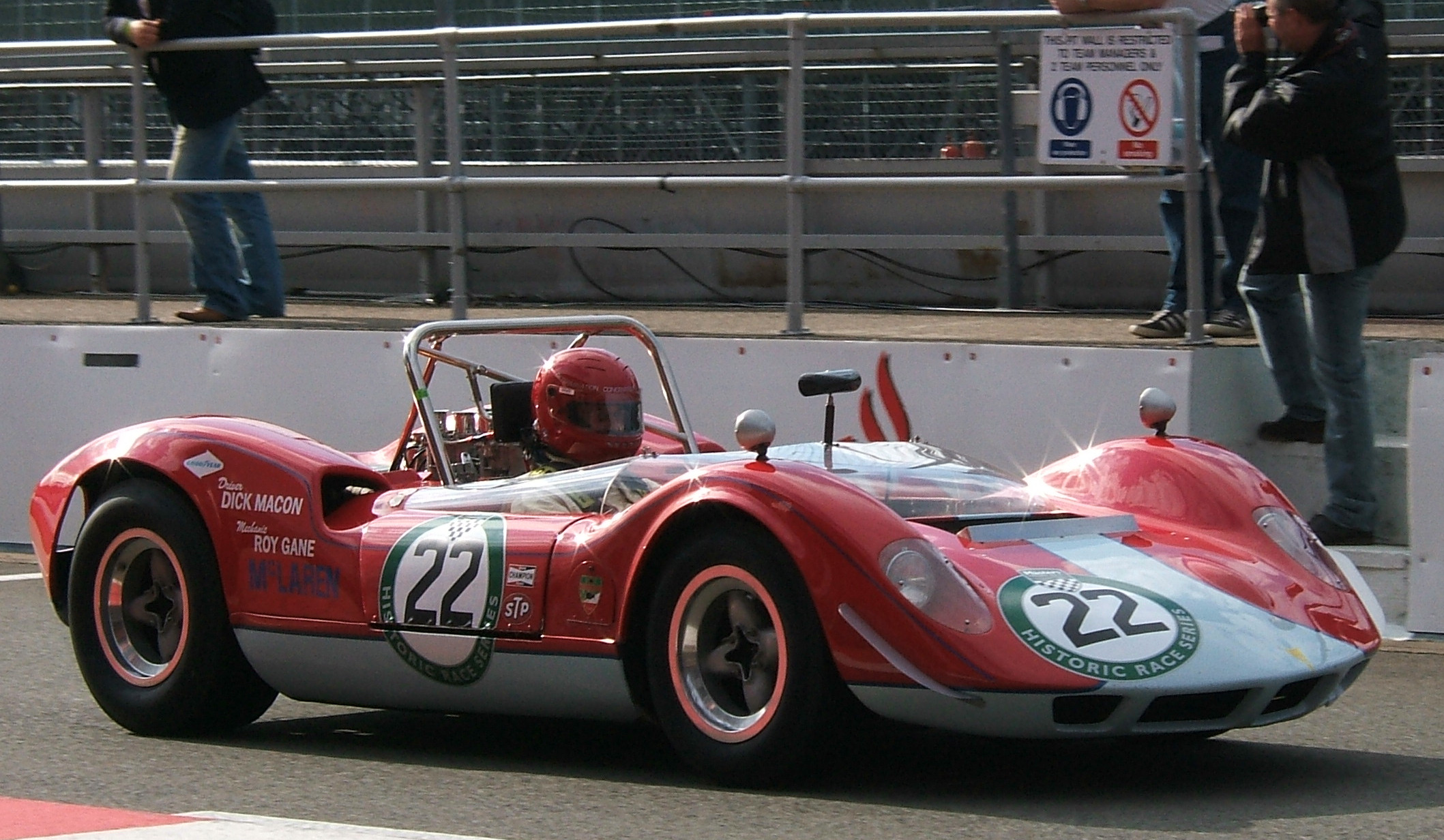 A McLaren M1A driving through the pits at Silverstone, July 2007.